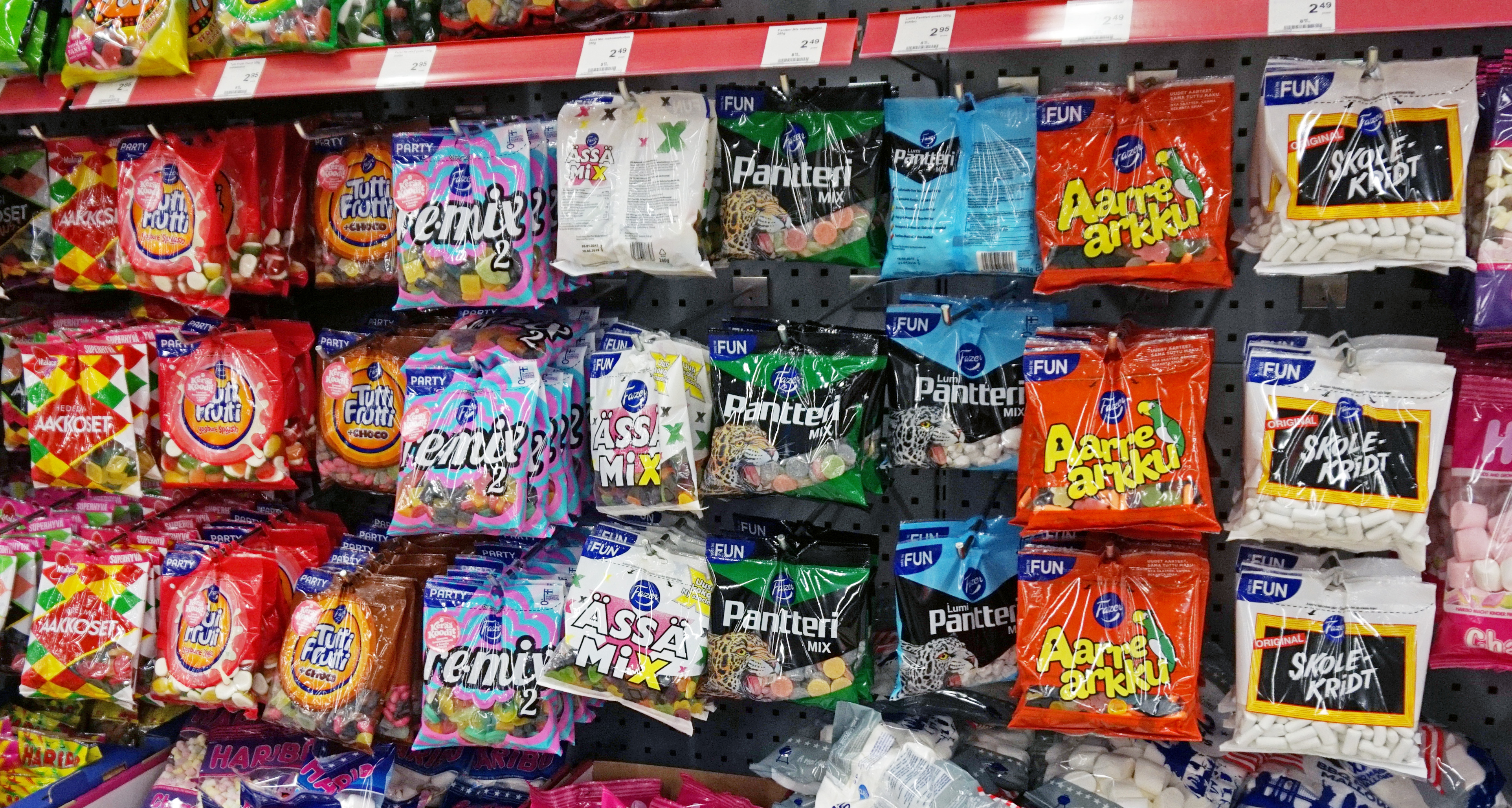 Candy bags by Fazer in Citymarket grocery, Jyväskylä.This photograph was taken with a Sony ILCE-5000